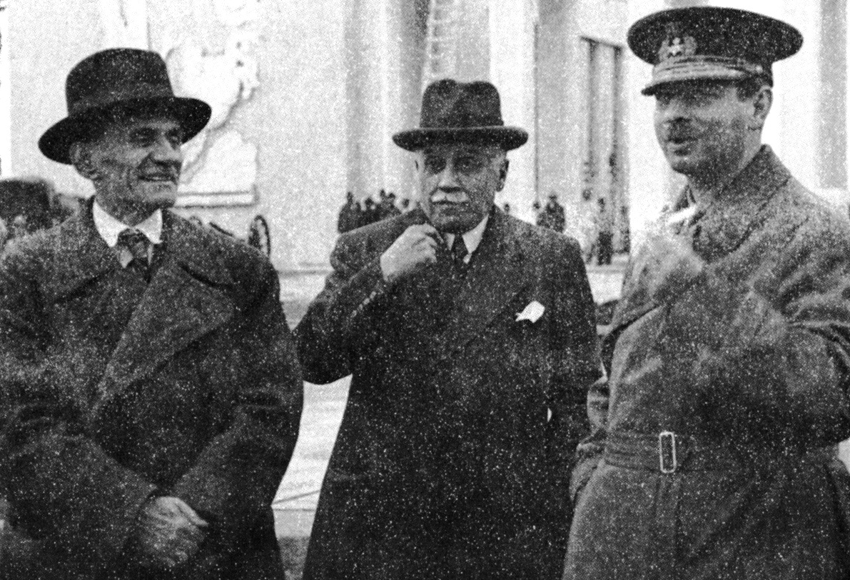 Snapshot taken at Luna Bucureştilor cultural festival, Bucharest, Romania, 1936. From left: the Aromanian writer and political figure N. C. Batzaria, who was the festival's Commissioner; Alexandru Donescu, Mayor of Bucharest; and King Carol II of Romania.